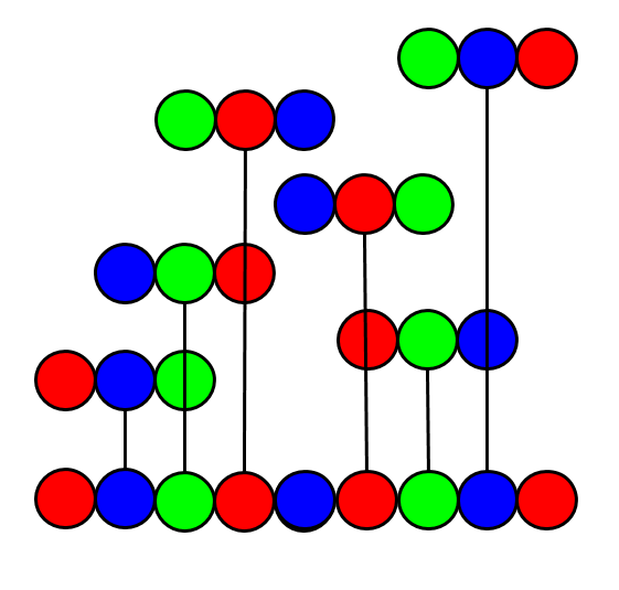 The smallest superpermutation of three symbols; each permutation is set above where it can be found on the superpermutation, which is at the bottom.